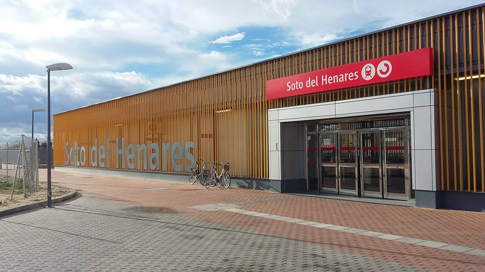 Soto del Henares Station, Torrejón de Ardoz, Community of Madrid, Spain.